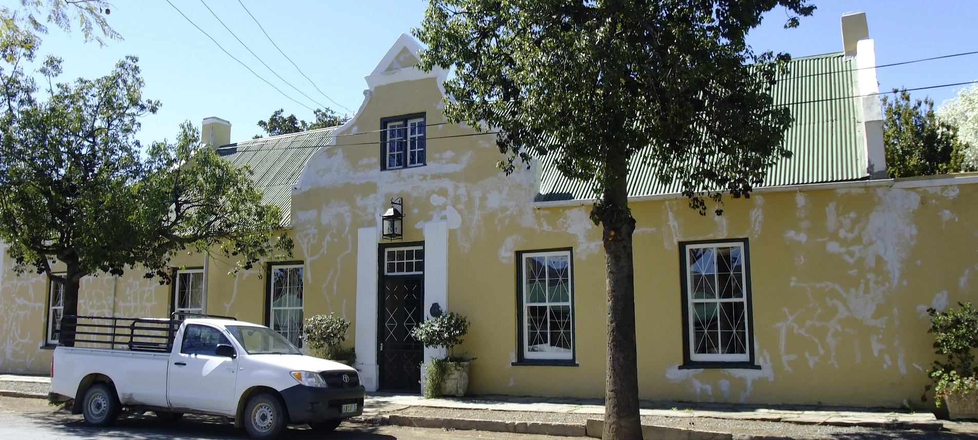 38 Bree Street, Cradock This media shows a South African Protected Site with SAHRA file reference 9/2/024/0013.